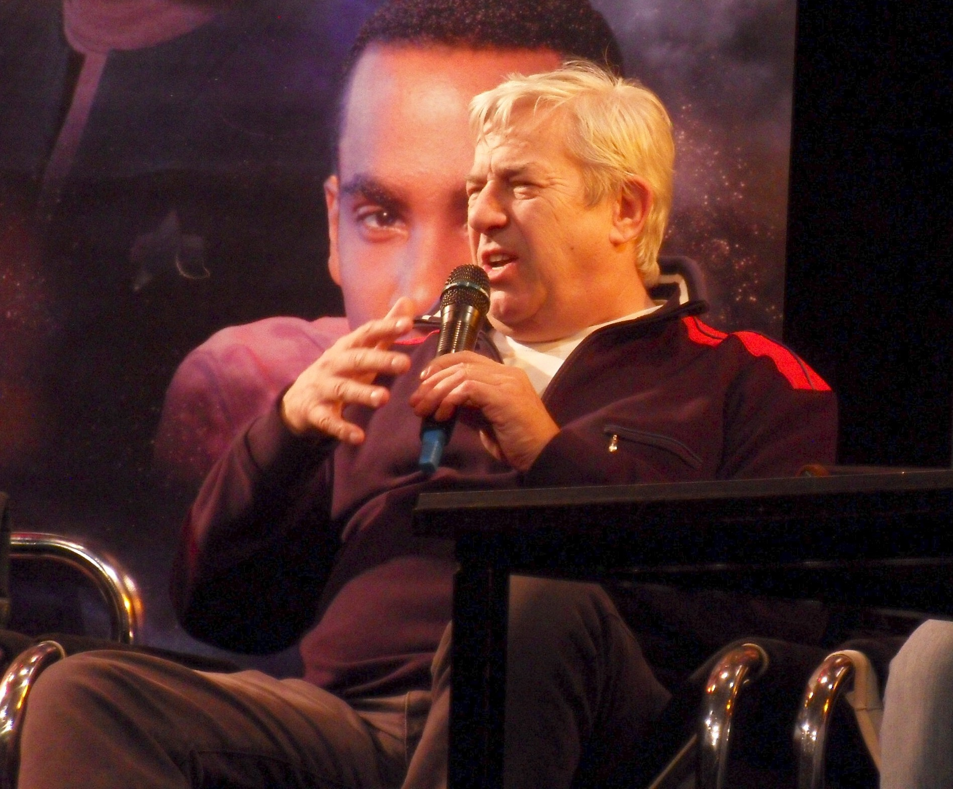 CzechTREK 2013, Kulturní centrum Novodvorská, Prague, Czech Republic Personality rights warningAlthough this work is freely licensed or in the public domain, the person(s) shown may have rights that legally restrict certain re-uses unless those depicted consent to such uses. In these cases, a model release or other evidence of consent could protect you from infringement claims.